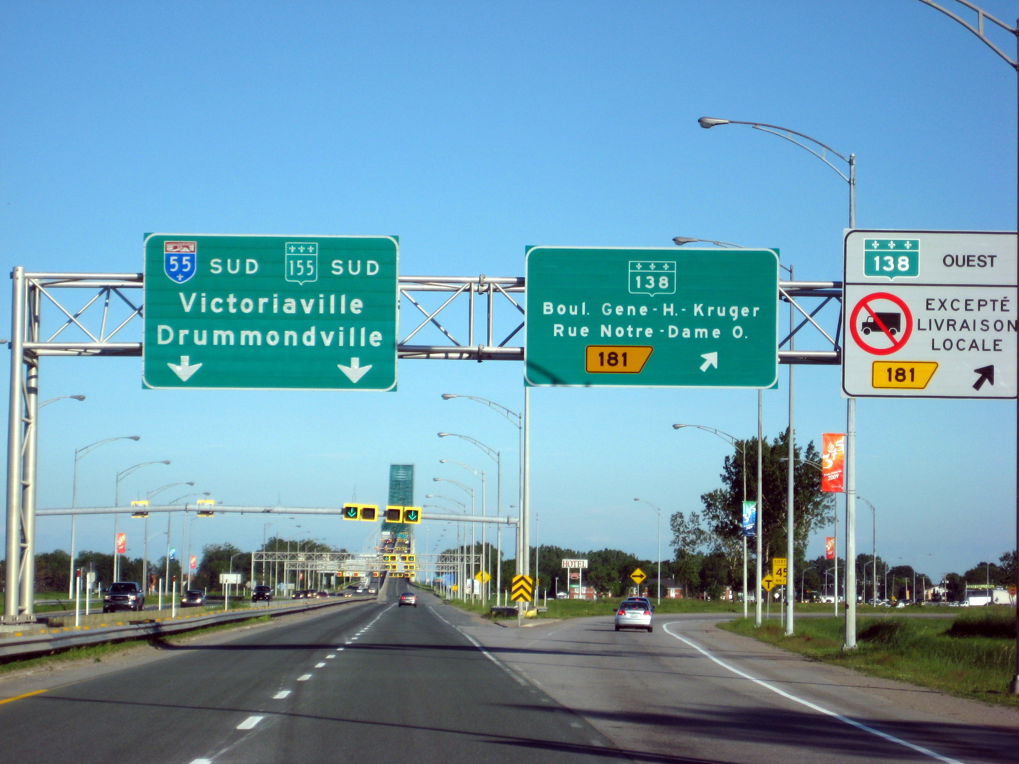 Quebec Autoroute 55 southbound (sud) at exit 181 in Trois-Rivières, approaching the Laviolette Bridge over the St. Lawrence River. Exit is to Quebec route 138 west (ouest). (Original file name "A55 à l'approche du Pont.jpg", or "Autoroute 55 approaches the bridge")